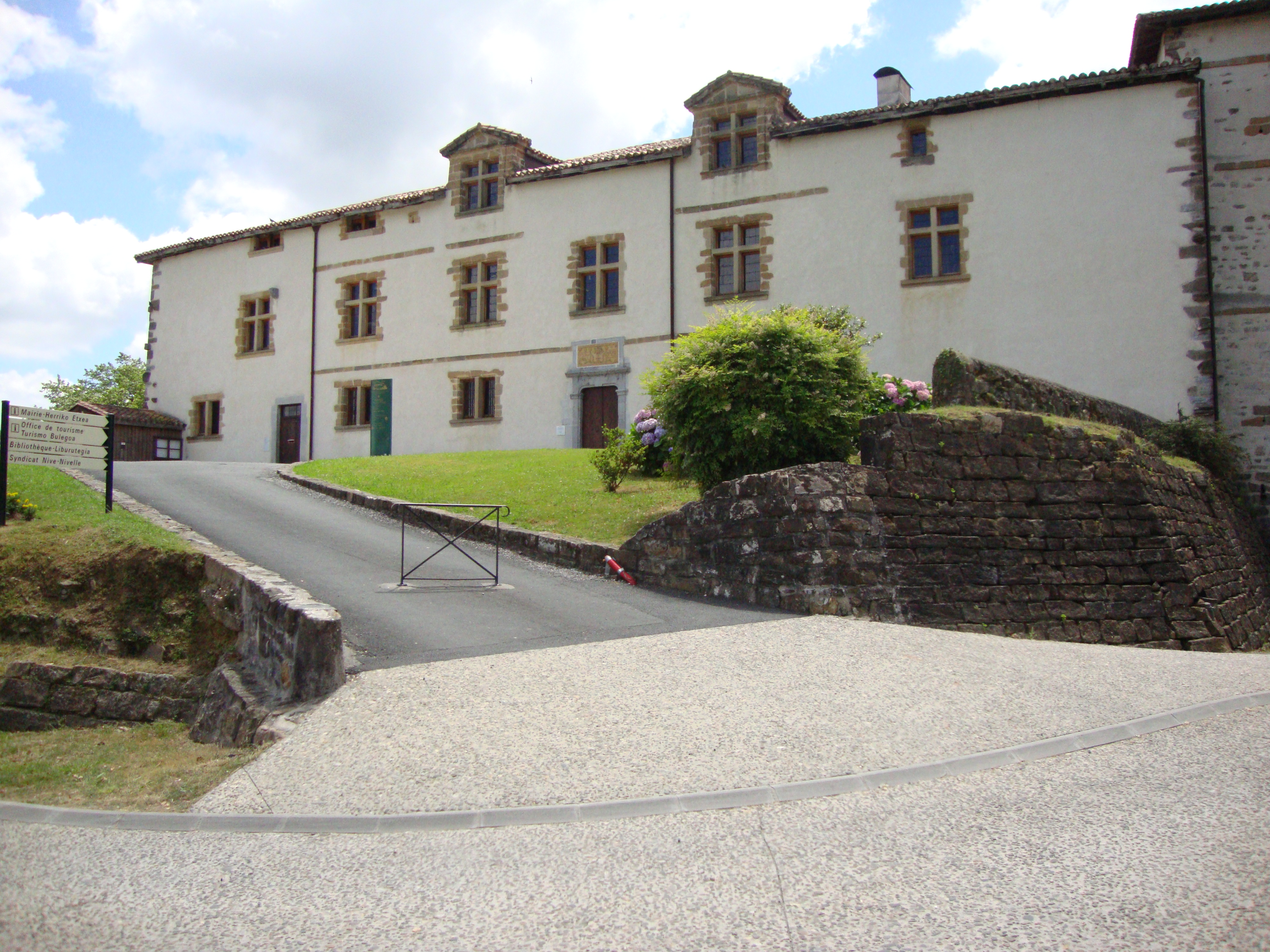 Espelette (Pyr-Atl., Fr) town hall